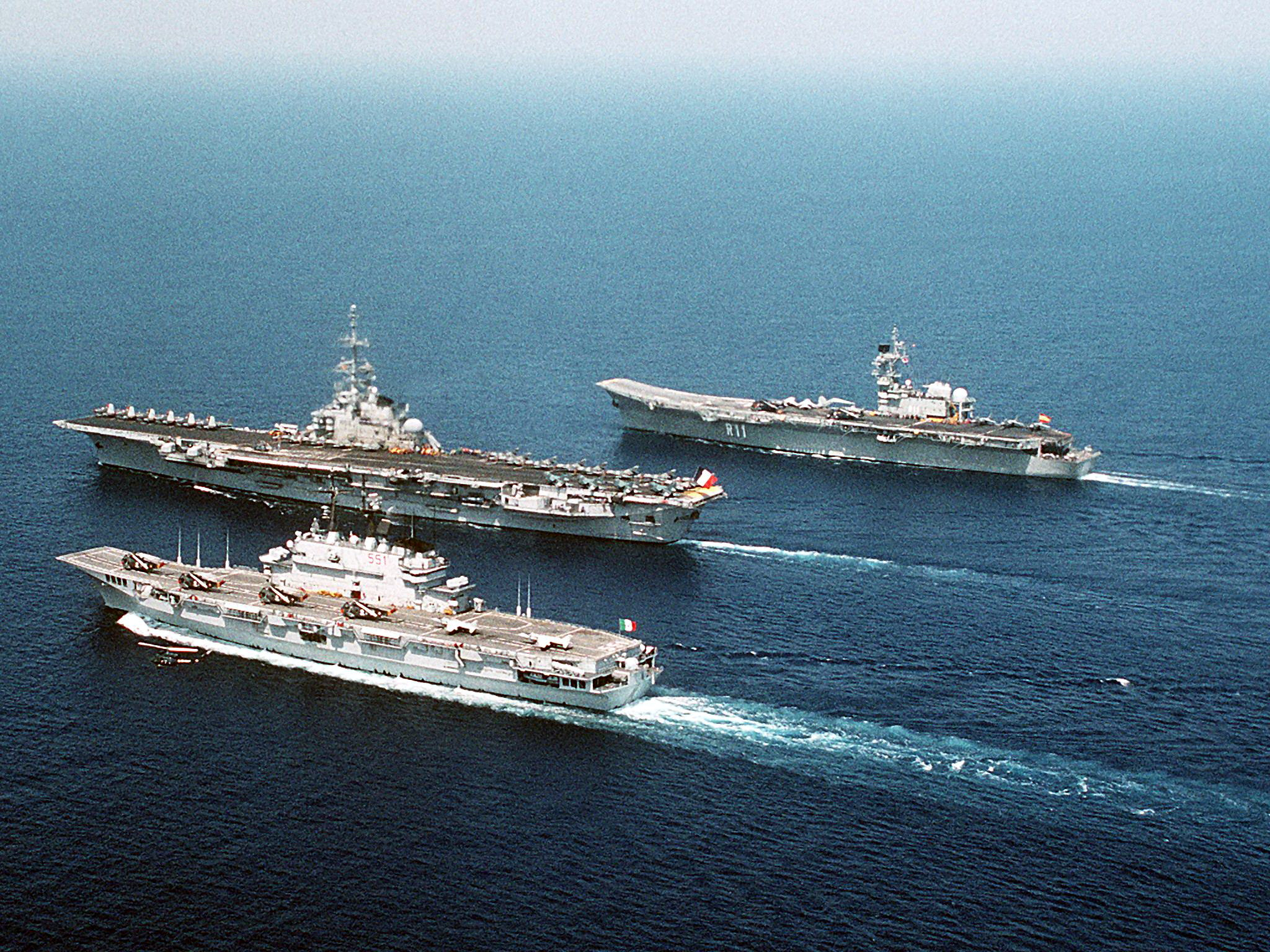 ID: DN-ST-92-08608 Service Depicted: Command Shown: N0905 Operation / Series: DRAGON HAMMER `92 Three aircraft carriers are underway in formation during the joint exercise Dragon Hammer '92. They include, from foreground: the Italian carrier GIUSEPPE GARIBALDI (C-551), the French carrier FOCH (R-99) and the Spanish carrier PRINCIPE DE ASTURIAS (R-11).